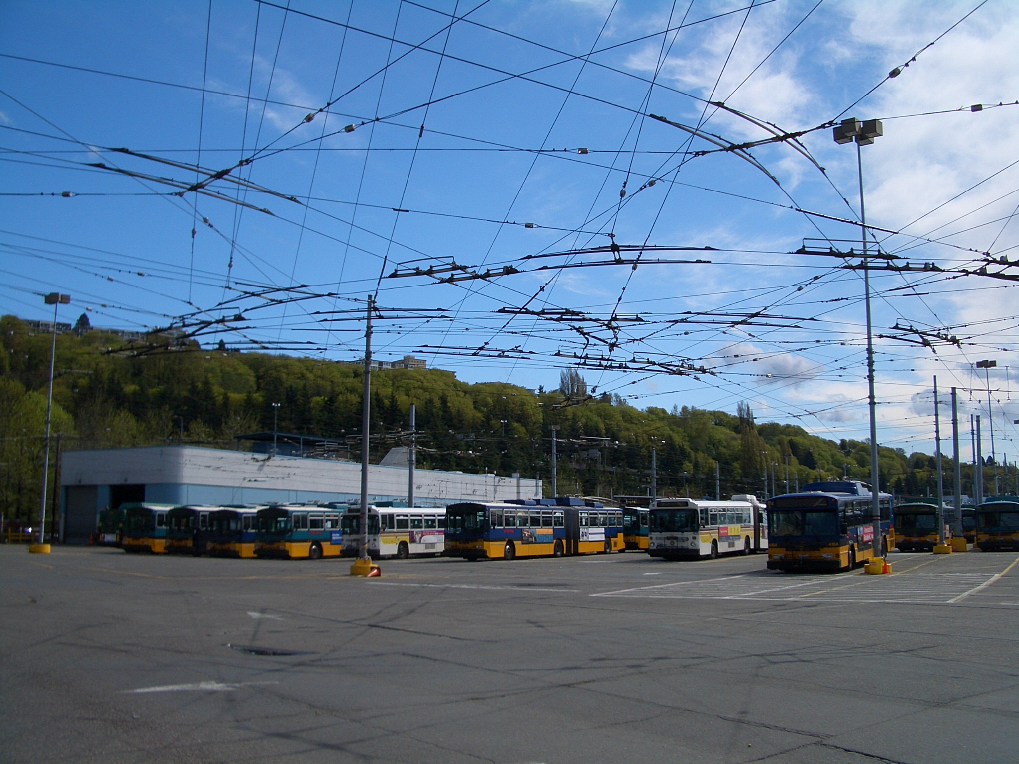 Trolleybuses parked at Metro Transit's Atlantic Base, Seattle on Easter Day, 2007